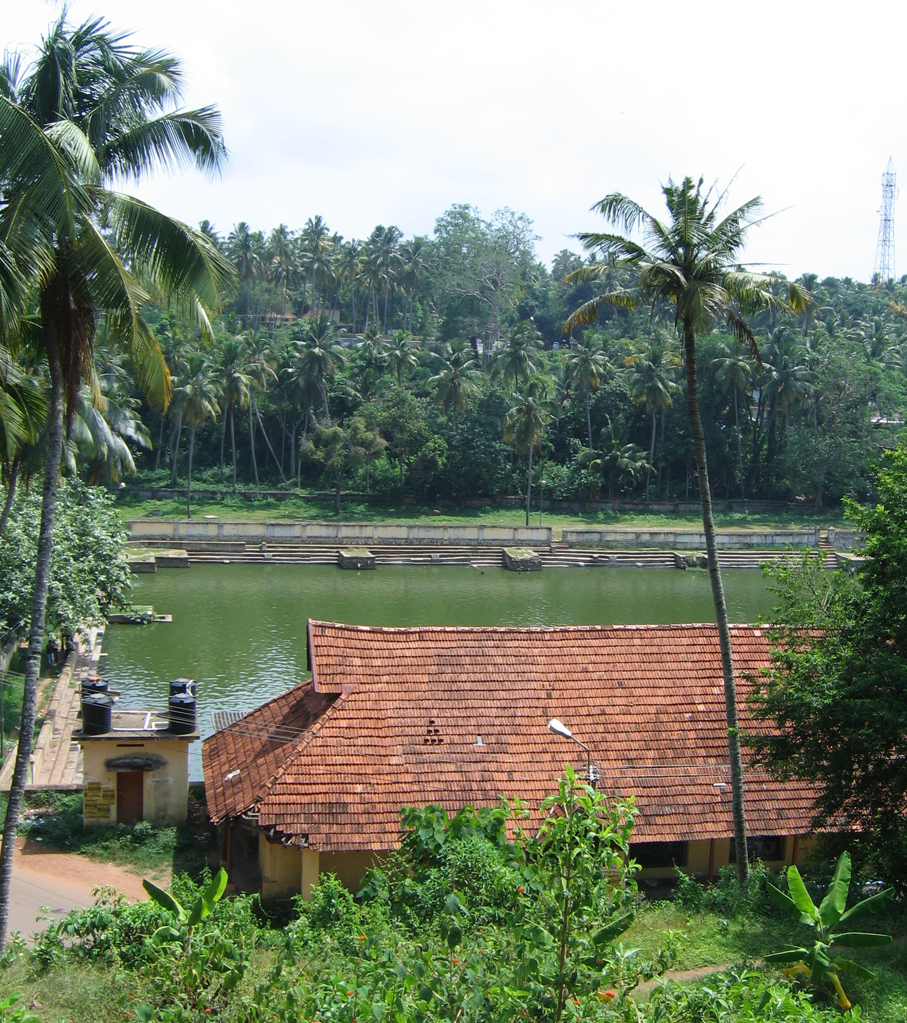 Varkala Shree Janardhana Swamy temple pond view